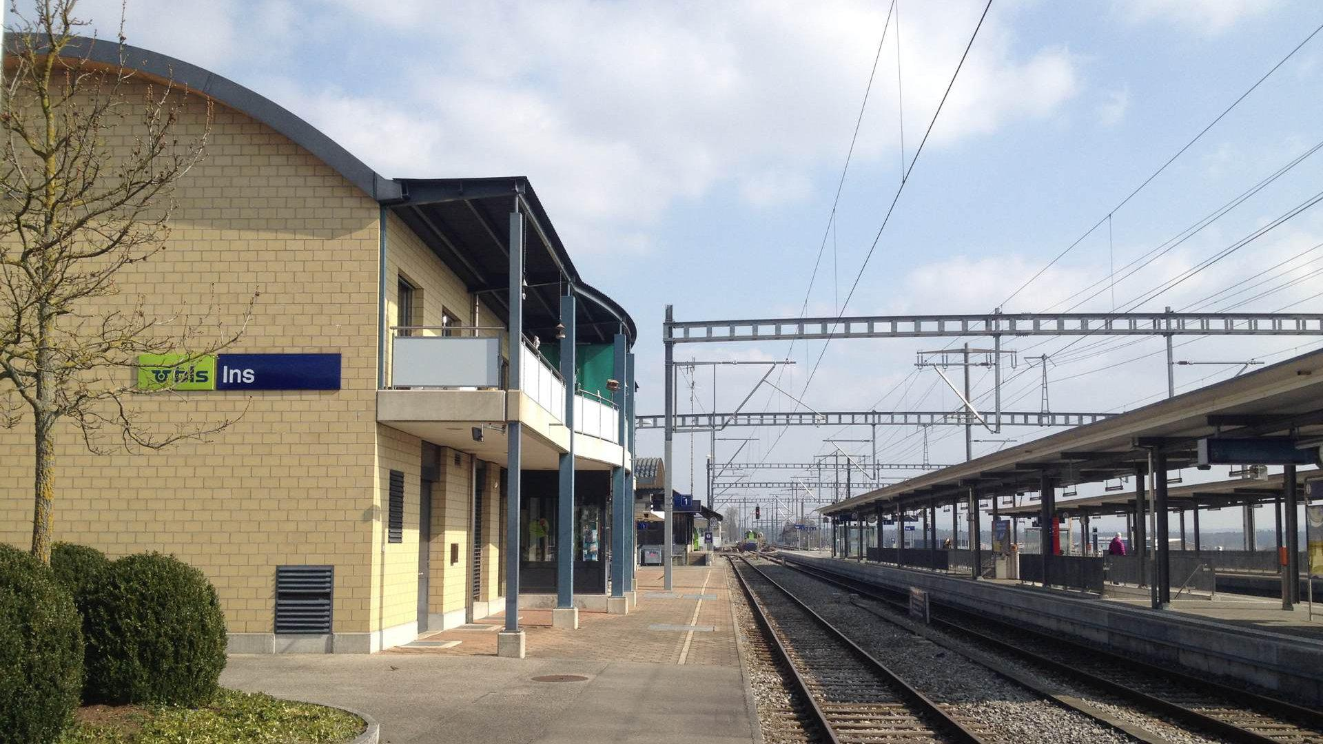 Ins railway station in Ins, Switzerland.